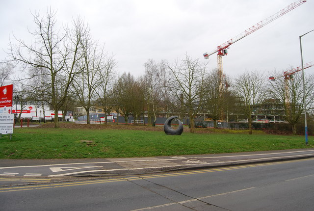 Rebuilding West Kent College, Brook St The original 1960s building as been pulled down & a new college is being built